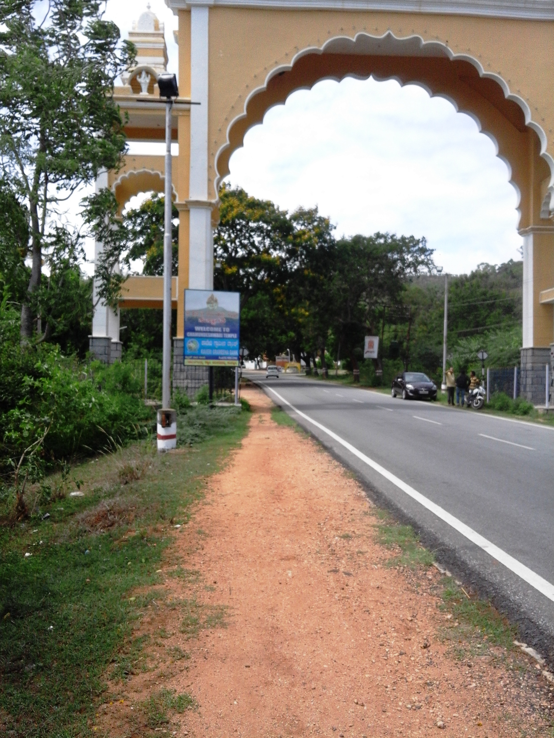 Mysore city, Mysore district, Karnataka province, India.